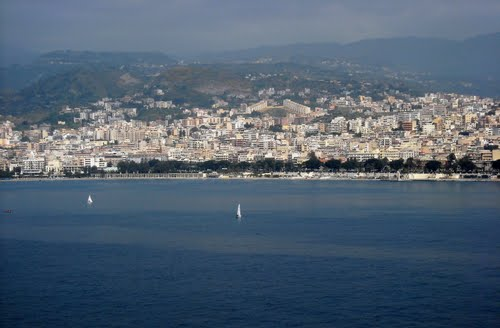 Reggio Calabria